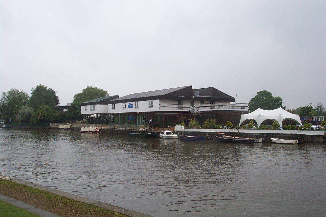 Raven's Ait on the Thames (grid reference TQ175679) from Queen's Promenade, looking upstream. The buildings were built in 1971.